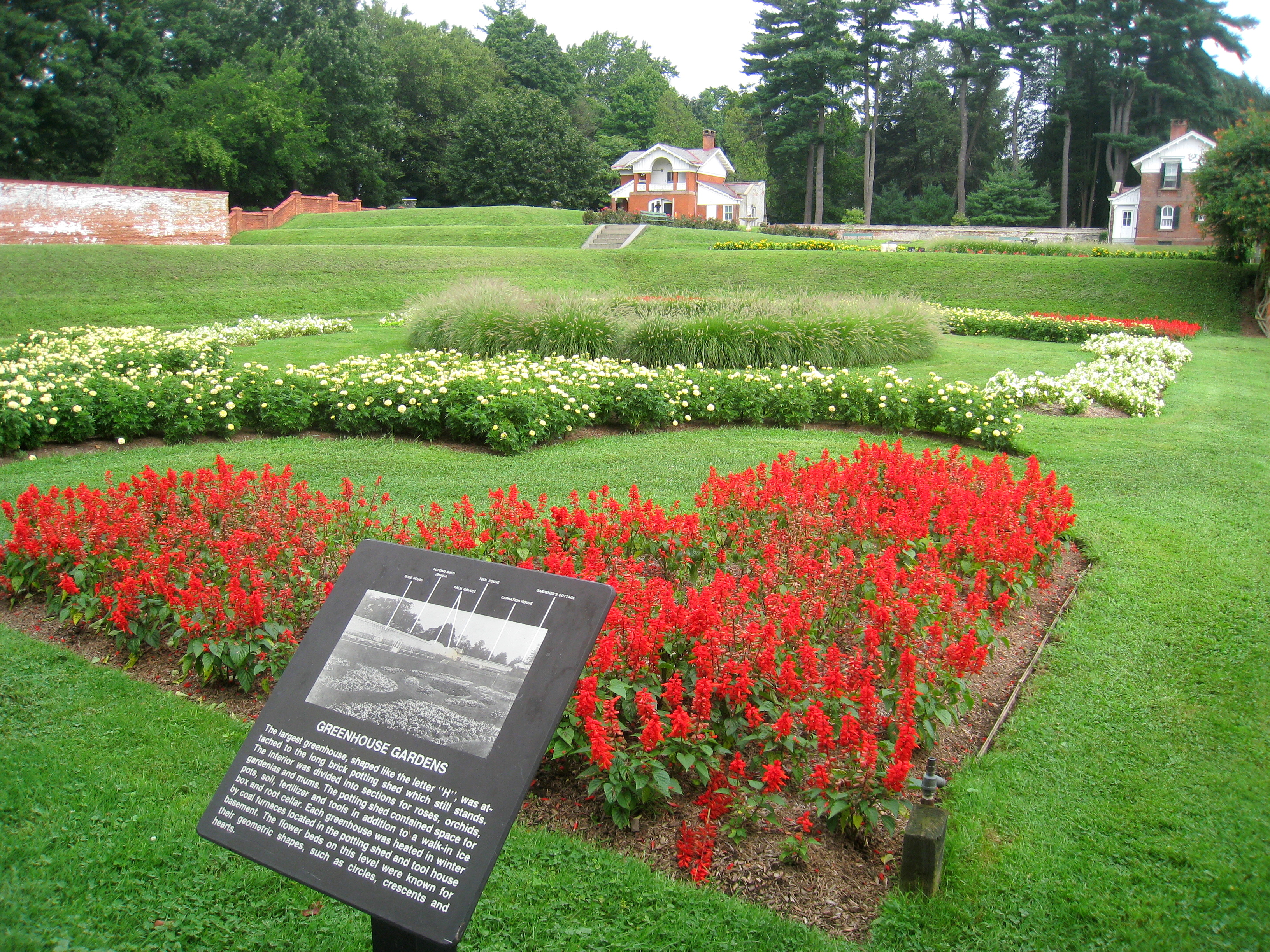 Gardens at the Vanderbilt Mansion. Located at the Vanderbilt Mansion National Historic Site, 4097 Albany Post Road, in Hyde Park, New York. Designed for Frederick W. Vanderbilt (1856–1938) - architecture by by McKim, Mead & White - and built between 1896–1899. Historic house museum and gardens maintained by the U.S. National Park Service.